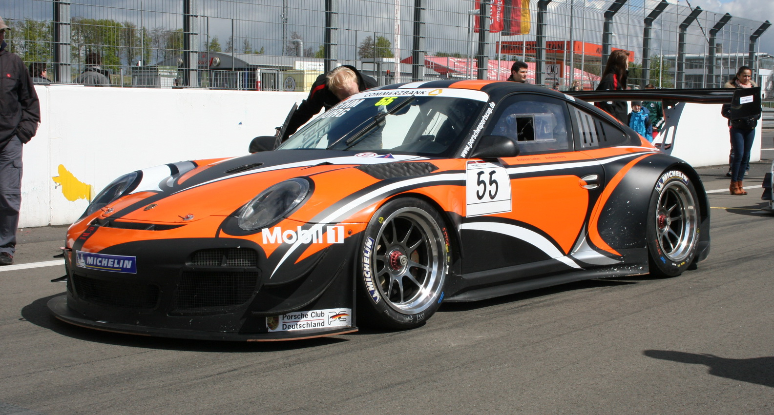 Porsche 997 GT3 R prepared for Porsche Super Sports Cup Germany at Nürburgring 2013